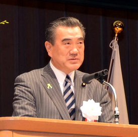 Ryō Shuhama, Parliamentary Secretary for Internal Affairs and Communications, attended a national convention about statistics in Japan on November 11, 2011. (For terms of use, see 総務省｜当省ホームページについて.)